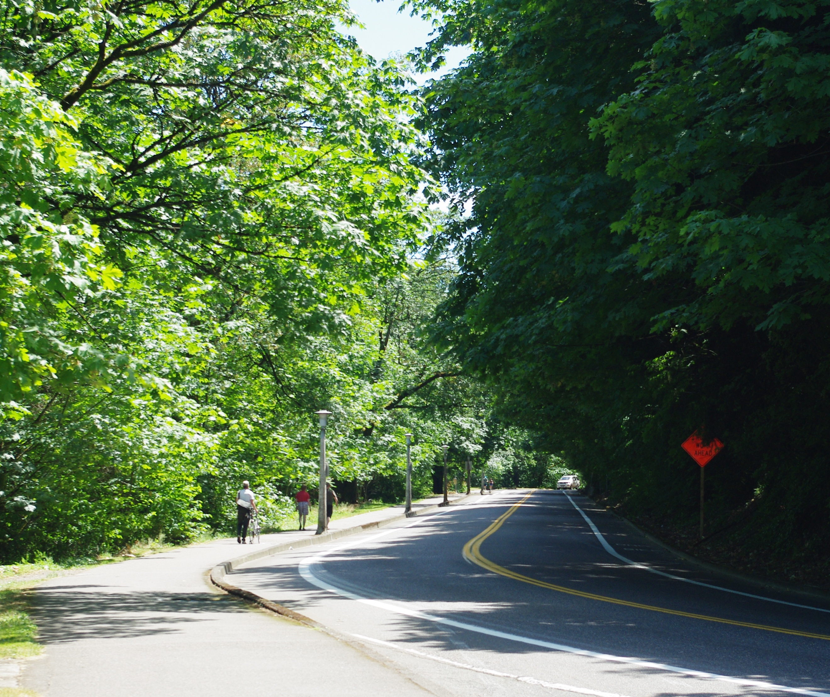 Southwest Terwilliger Boulevard from the overlook at Duniway Park in Portland, Oregon.